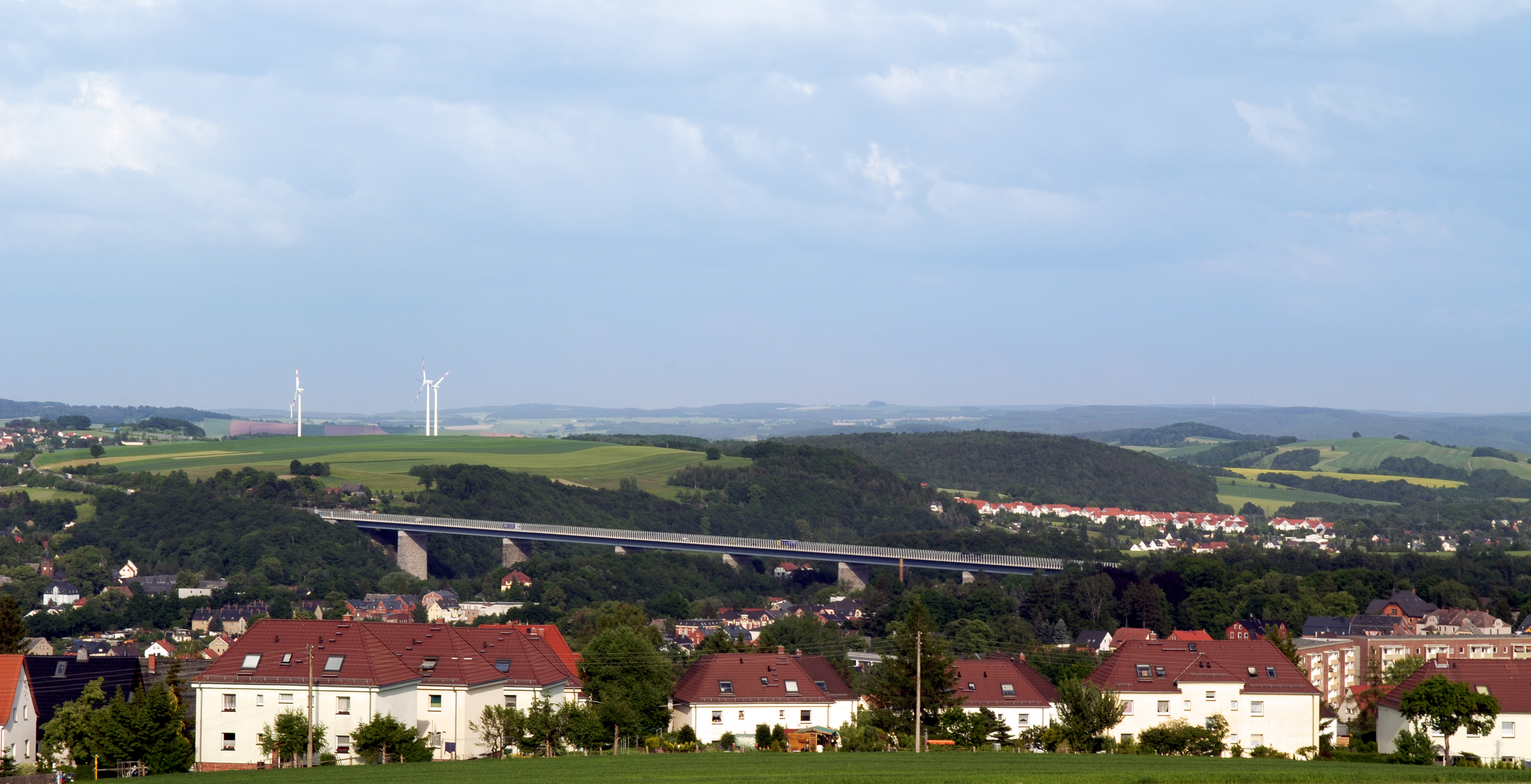 This image shows bridge of the autobahn A72 in Wilkau-Haßlau.